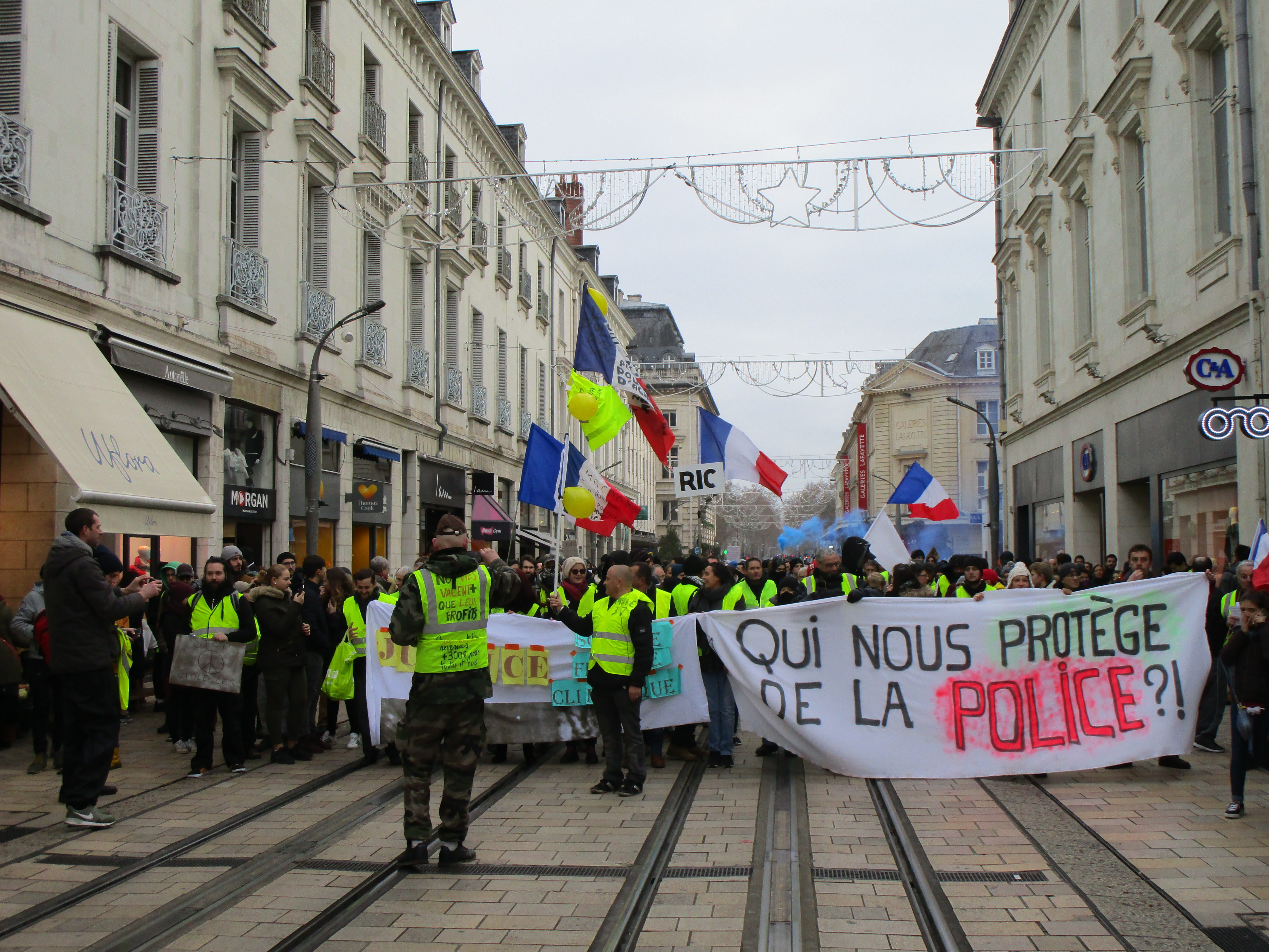 Demonstration in Tours, France, 12 January 2019